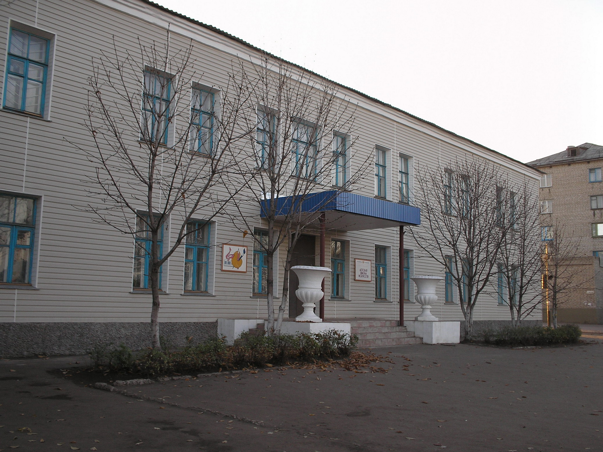 Rtishchevo. Children's school of arts